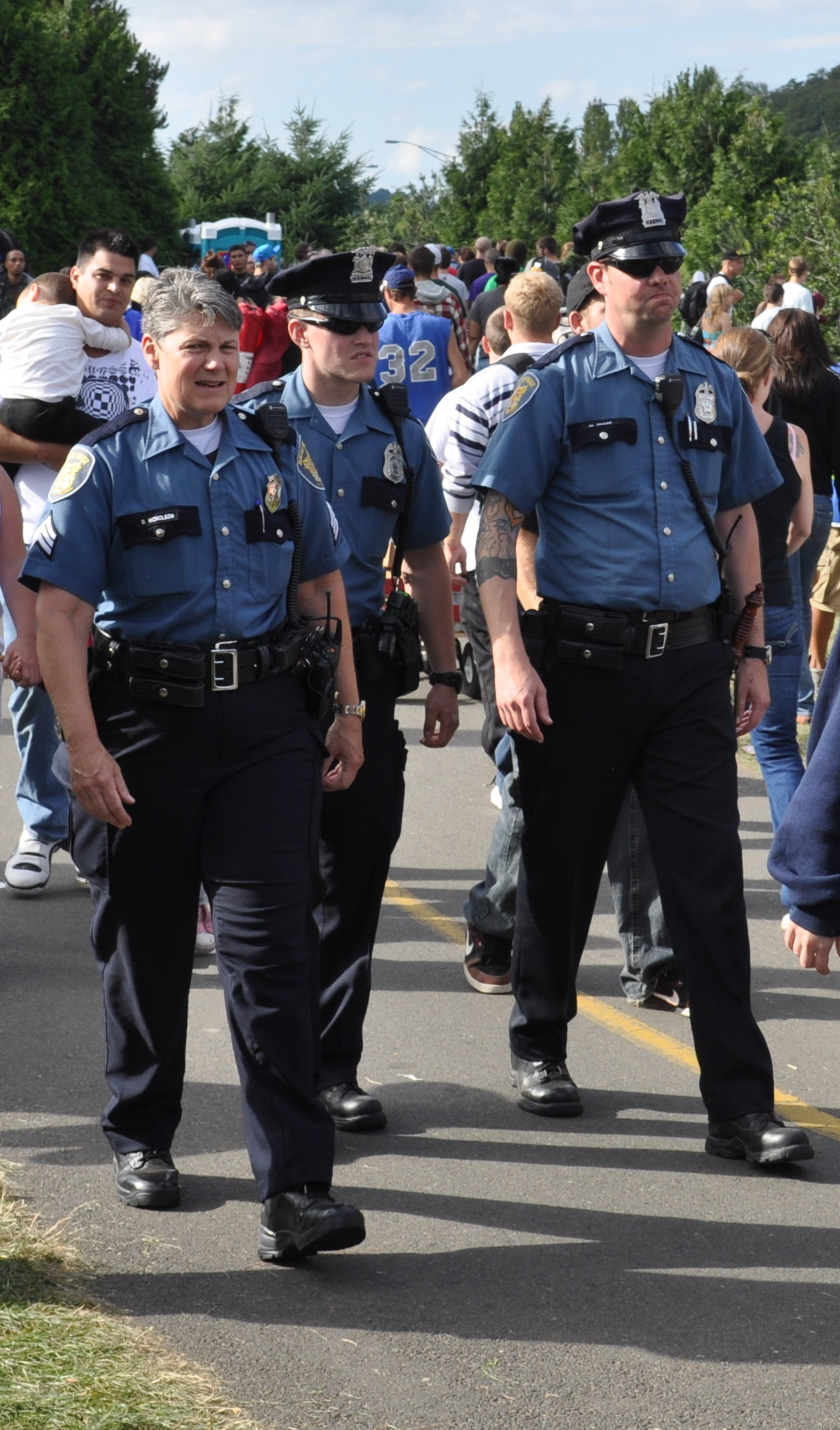 Crowd, and police, walking through Seattle Hempfest 2010, Myrtle Edwards Park.